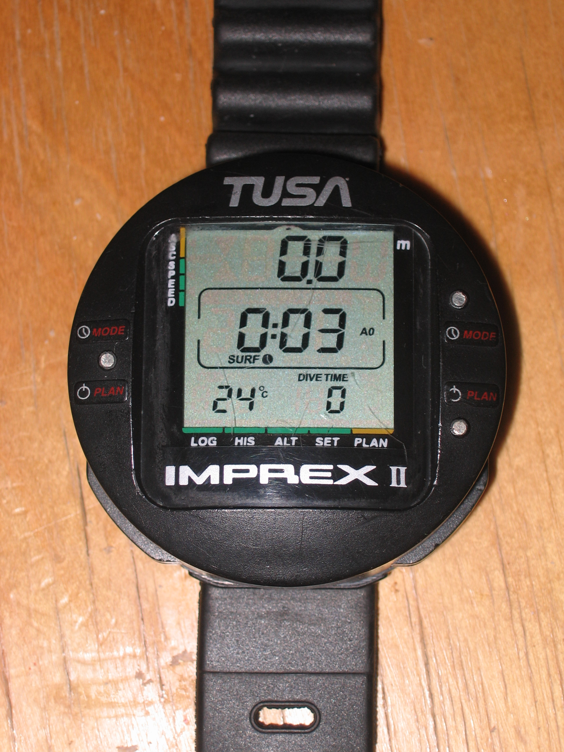 Simple dive computer. (TUSA Imprex II aka IQ-400 aka Seiko "something")